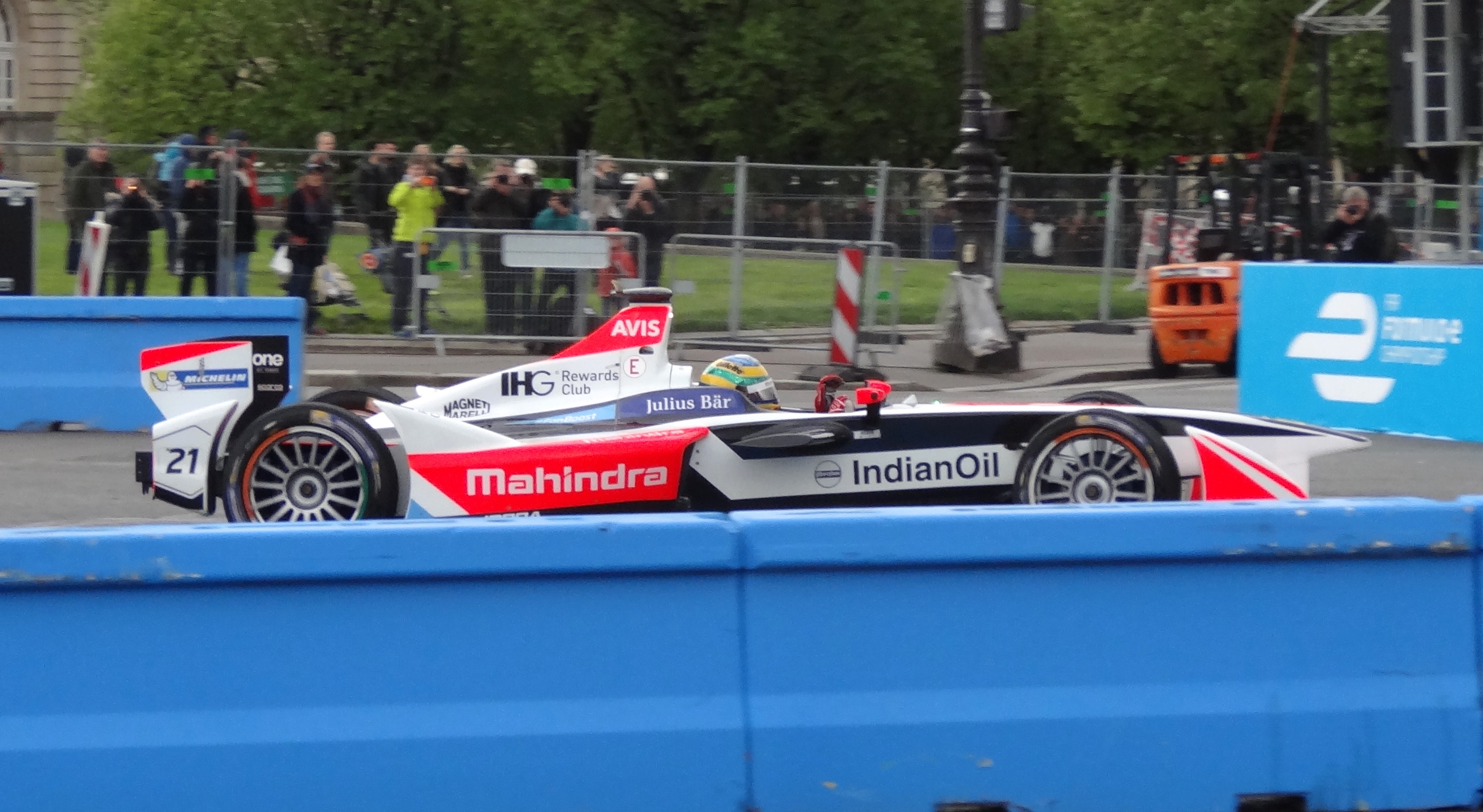 Bruno Senna Formula E